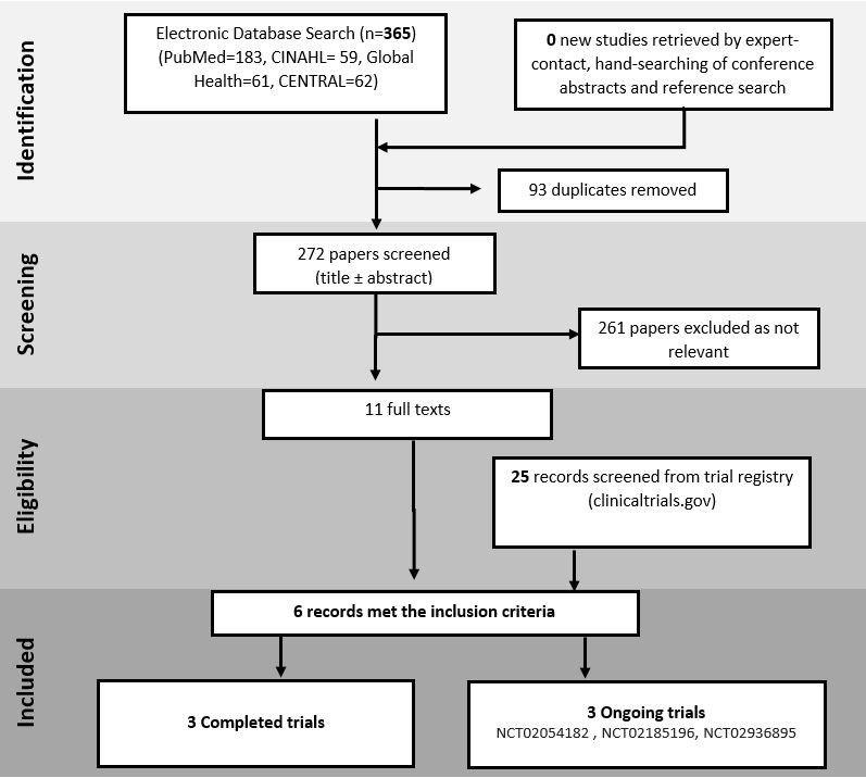 Figure 1 : PRISMA flowchart showing the inclusion of studies.